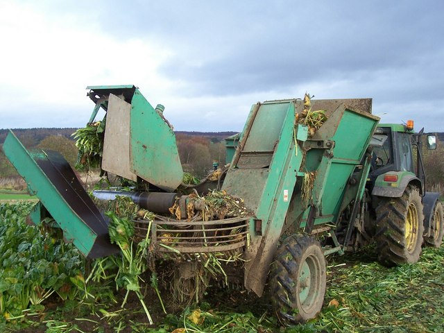 Fodder Beet harvesting. Harvesting this root crop for cattle feed on a cold autumn afternoon at Balgownie Mains.